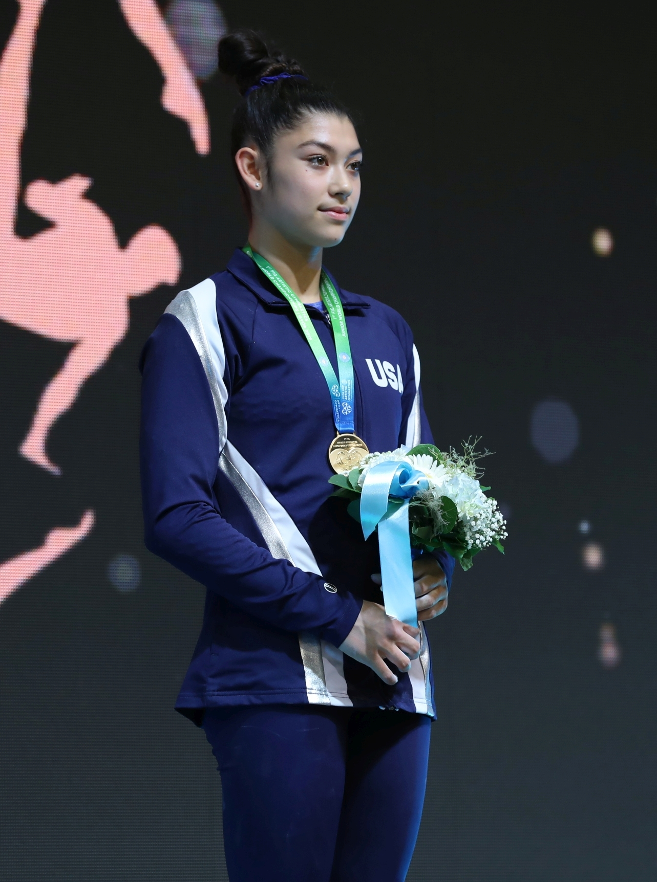 Vault victory ceremony during the girls' apparatus finals at the 1st FIG Artistic Gymnastics Junior World Championships on 29 June 2019 in Győr, Hungary. Depicted: Kayla DiCello.